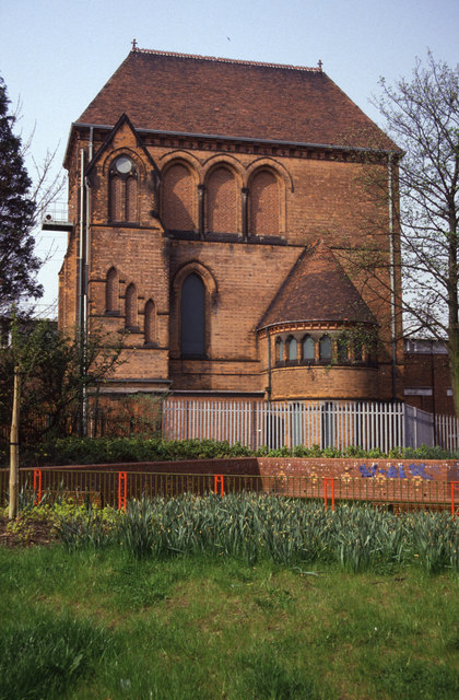 Selly Oak, Birmingham: Gothic Revival building completed in 1878 as a pumping station and later converted into an electrical substation.